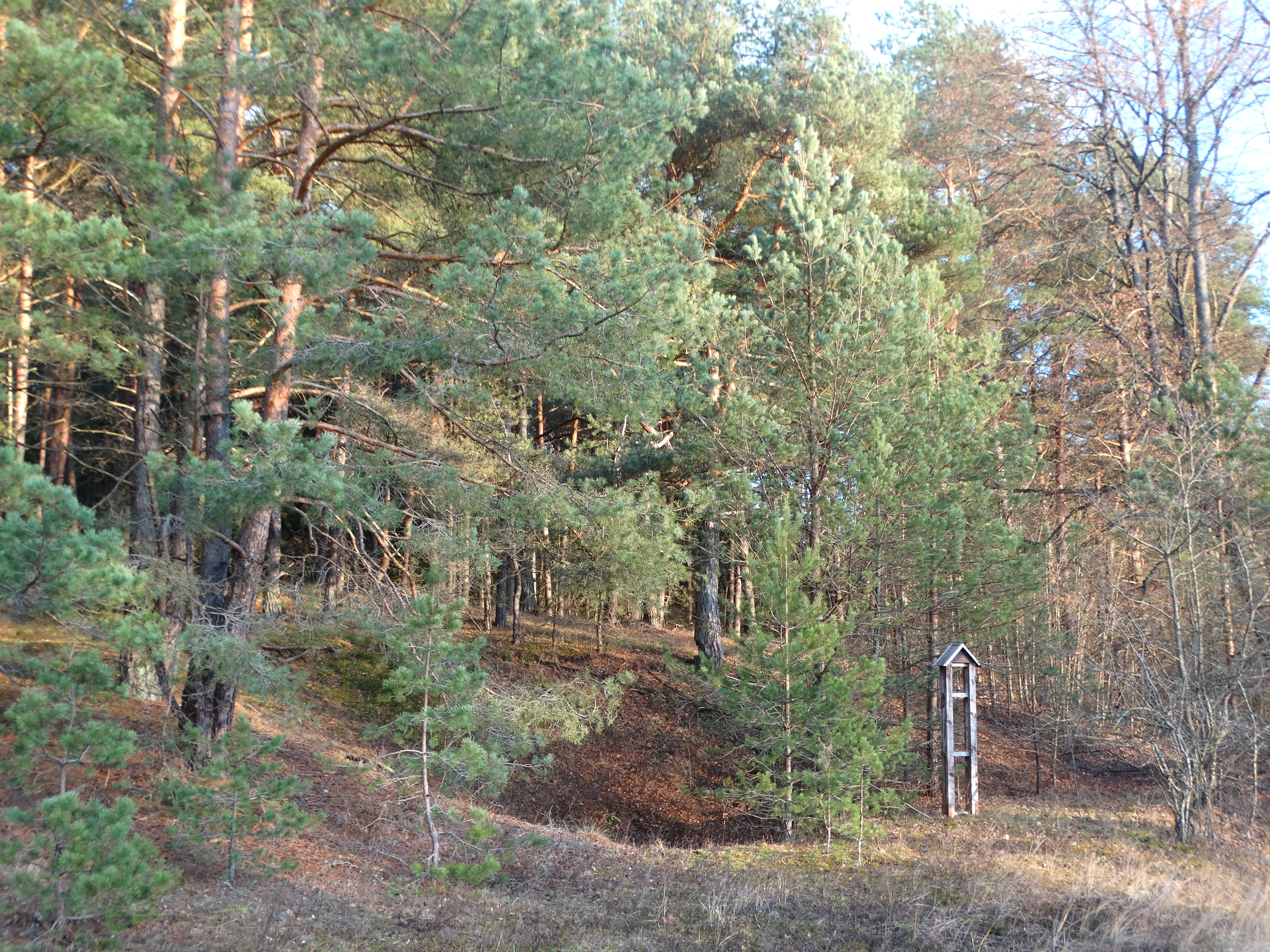 Kriemala, Kaunas District, Lithuania